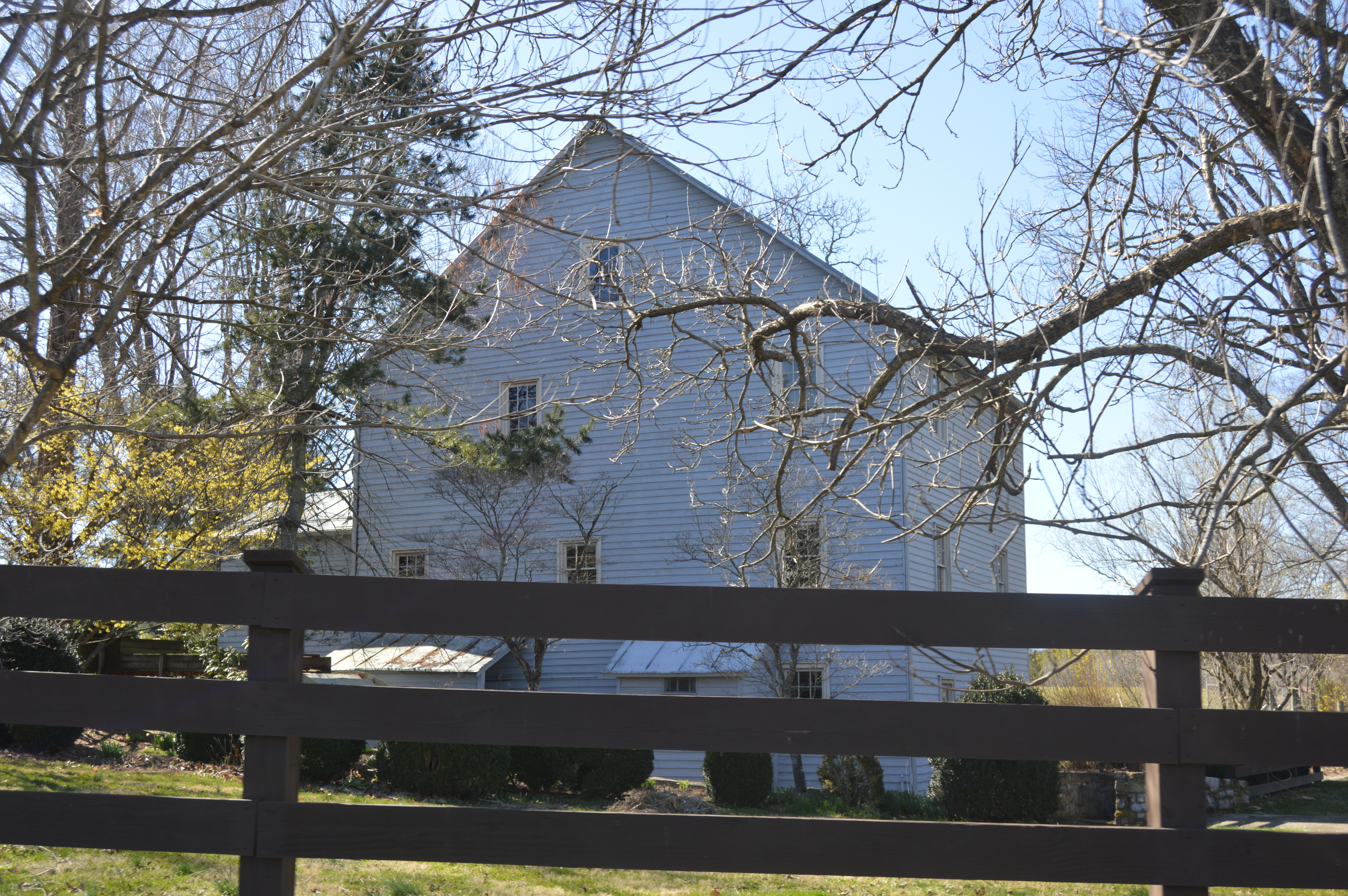 Eastern and northern sides of Hanger Mill, located on Hangers Mill Road north of U.S. Route 250 in Augusta County, Virginia, United States. Built in 1860, it is listed on the National Register of Historic Places.